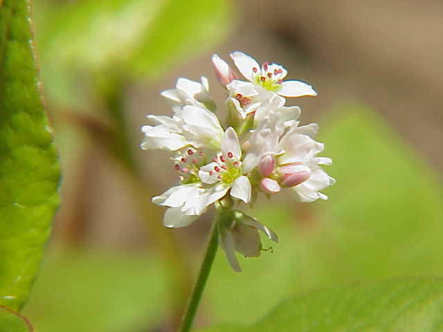 Species: Fagopyrum esculentum Family: Polygonaceae Image No. 2